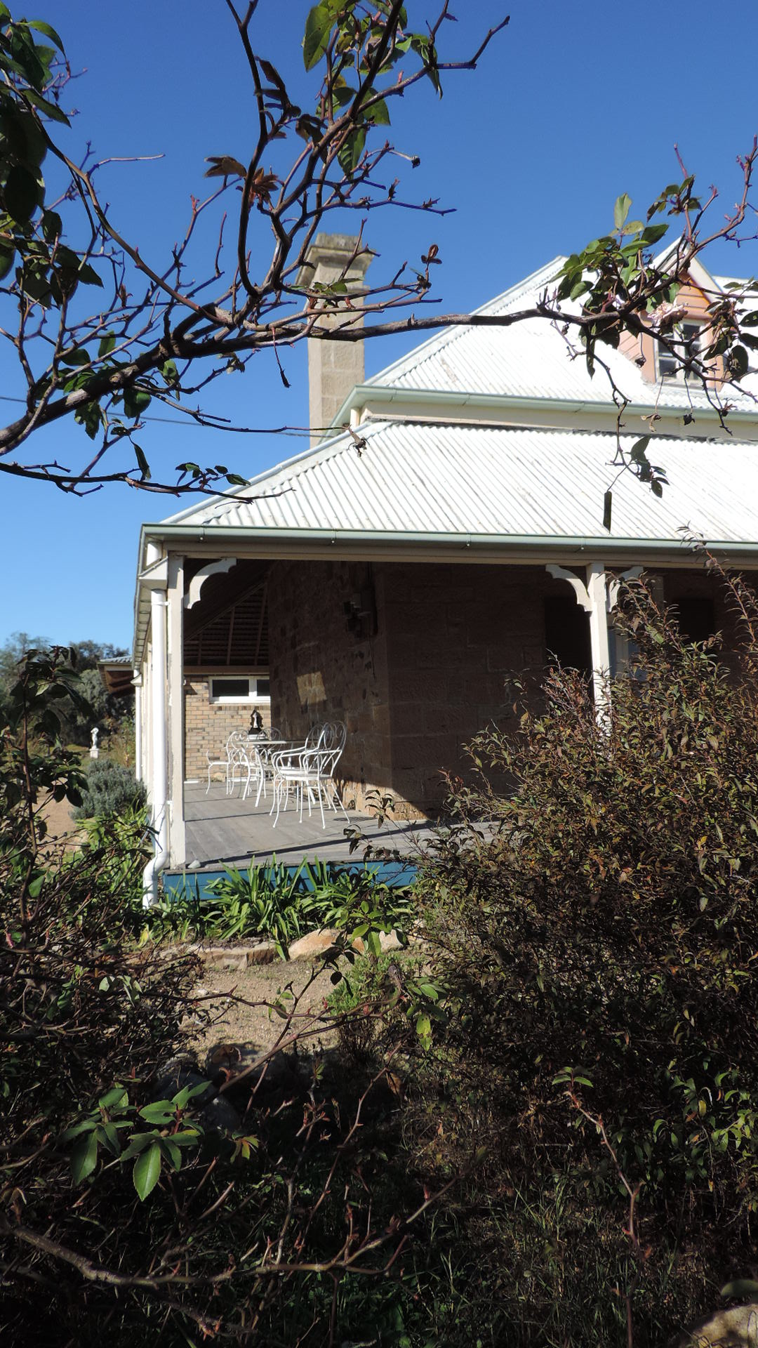 White Swan Inn, Swan Creek - side verandah, 2015